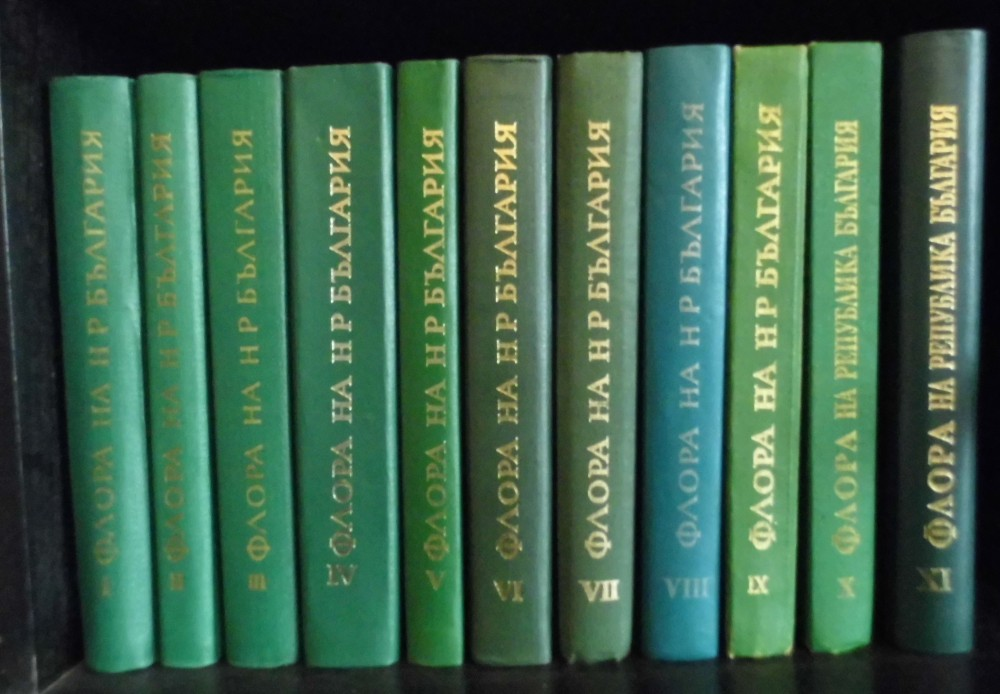 Flora of People's Republic of Bulgaria